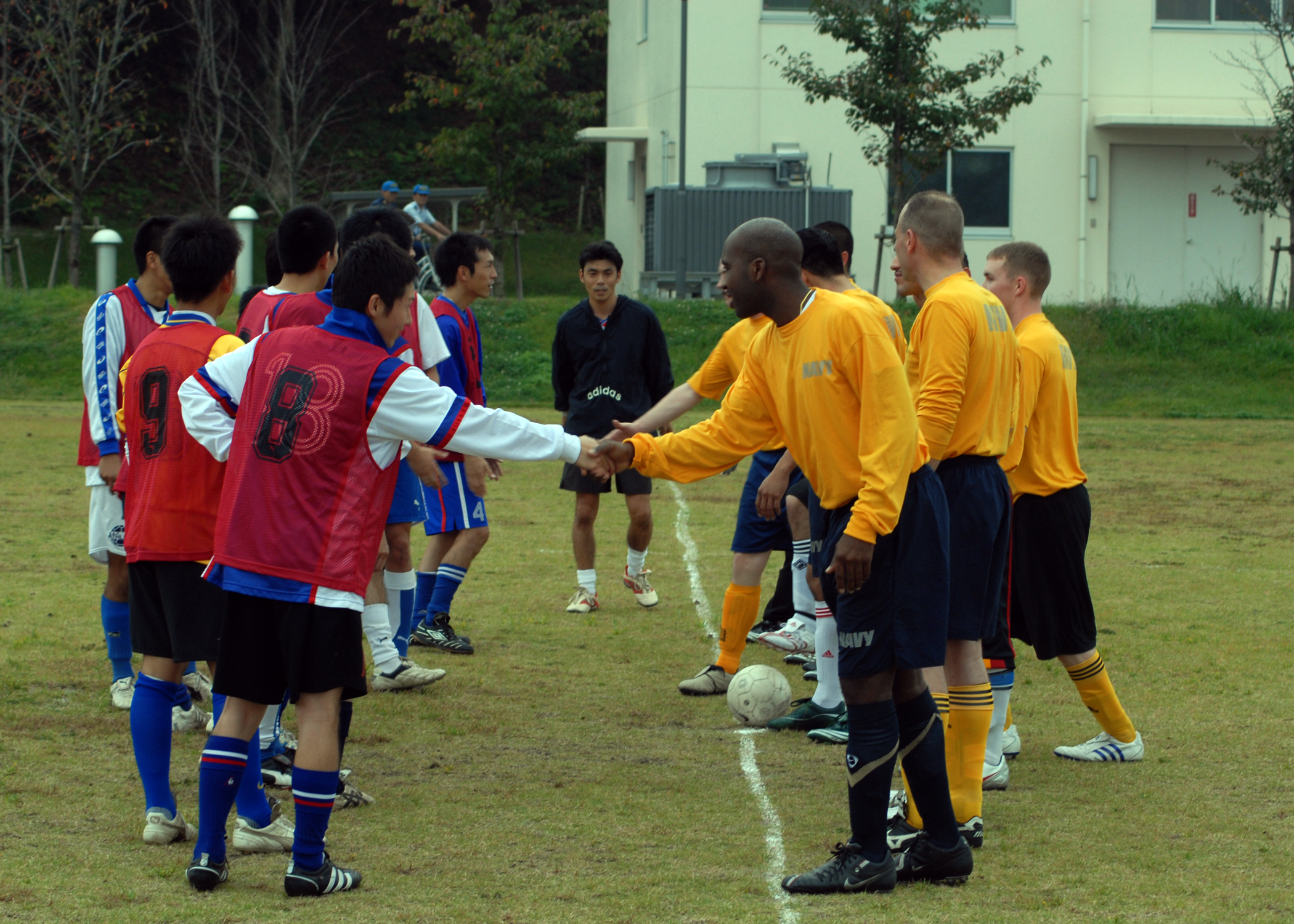 FUKUOKA, Japan (Nov. 7, 2008) Sailors assigned to the Arleigh Burke-class guided-missile destroyer USS Curtis Wilbur (DDG 54) and airmen from the Japan Self Defense Force Western Air Force shake hands before playing a soccer match. The Curtis Wilbur crew of approximately 300 Sailors visited Fukuoka for a scheduled port visit, where the crew engaged in goodwill activities with the community. (U.S. Navy Photo by Mass Communication Specialist 2nd Class Brock A. Taylor/Released)